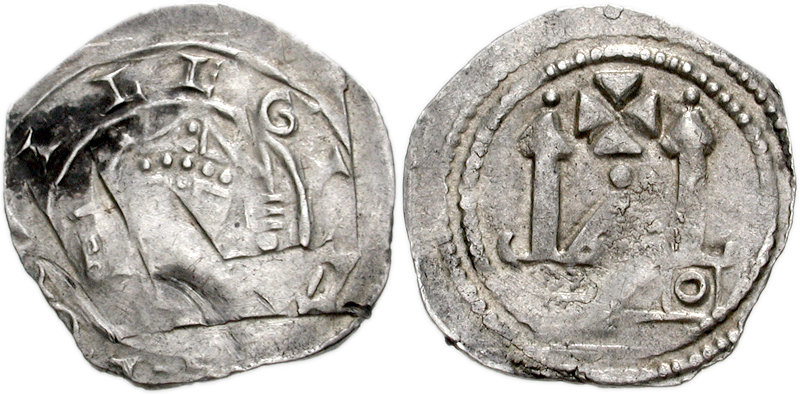 Aquileia. Gotifredo. 1182-1194. AR Denaro (20mm, 1.11 g, 7h). Bishop standing facing, holding staff and book of Gospels with lettering / Church gable.